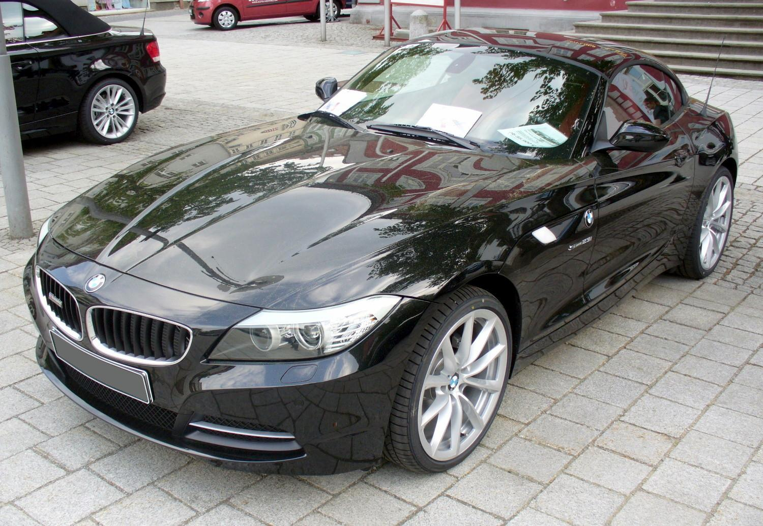 BMW E89 Z4 sDrive23i